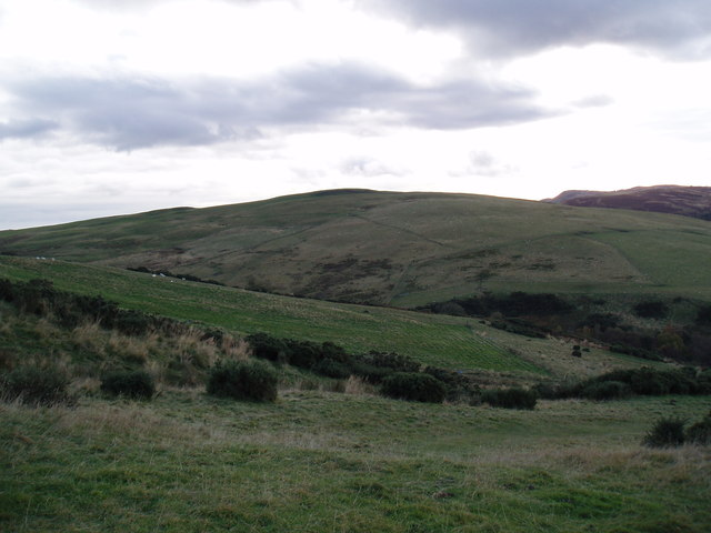 Hatton Hill from Kinpurnie